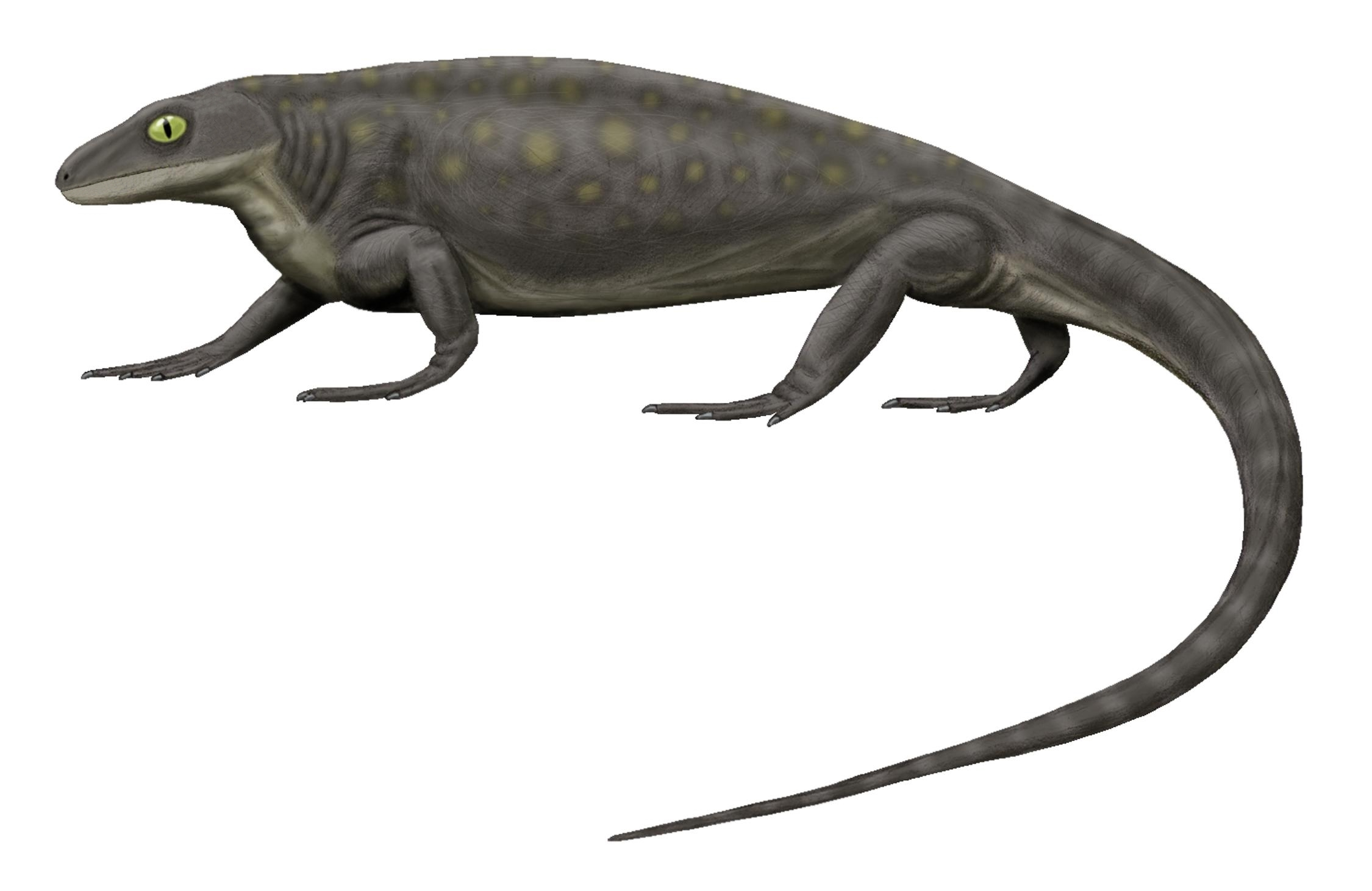 Life restoration of Aerosaurus wellesi. Based on figure 17:A of "Aerosaurus wellesi, new species, a varanopseid mammal-like reptile (Synapsida: Pelycosauria) from the Lower Permian of New Mexico" by W. Langston Jr. and R. R. Reisz Journal of Vertebrate Paleontology 1(1):73-96